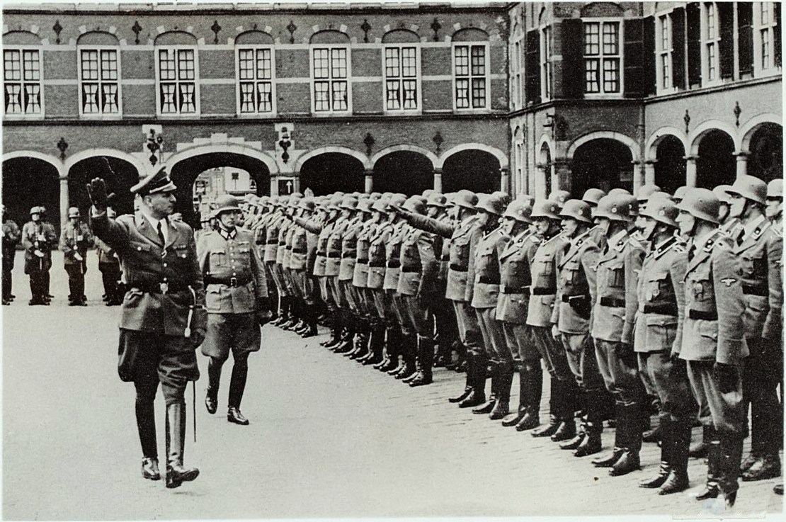 Inspection of the guard during the installation of Arthur Seyss-Inquart as Reichskommissar for the Occupied Dutch Territories, 29 May 1940, at the Inner Court (Binnenhof) in The Hague, the Netherlands.